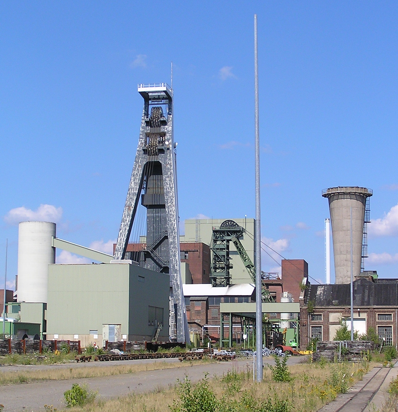 closed coal mine "Fürst Leopold" near Dorsten, Germany.